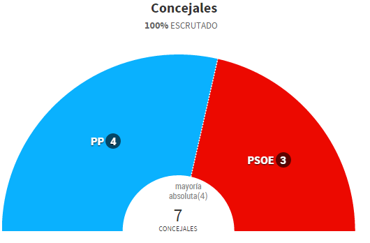 Composición actual del Ayuntamiento de Alar